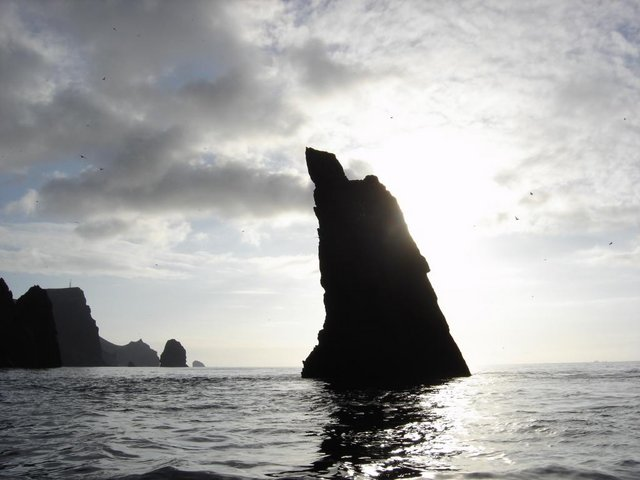 Latur is a skerrie in the Vestmannaeyjar archipelago. Picture taken by myself in spring twighlight, 2005, from a rubber dingy just moments before a storm. Viewed from the east looking westwards. Heimaey to the left.